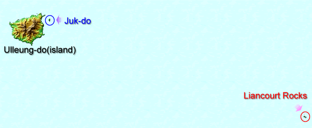 location of Ulleung-do, Juk-do and Liancourt Rocks